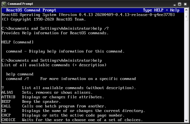 help command on ReactOS-0.4.13